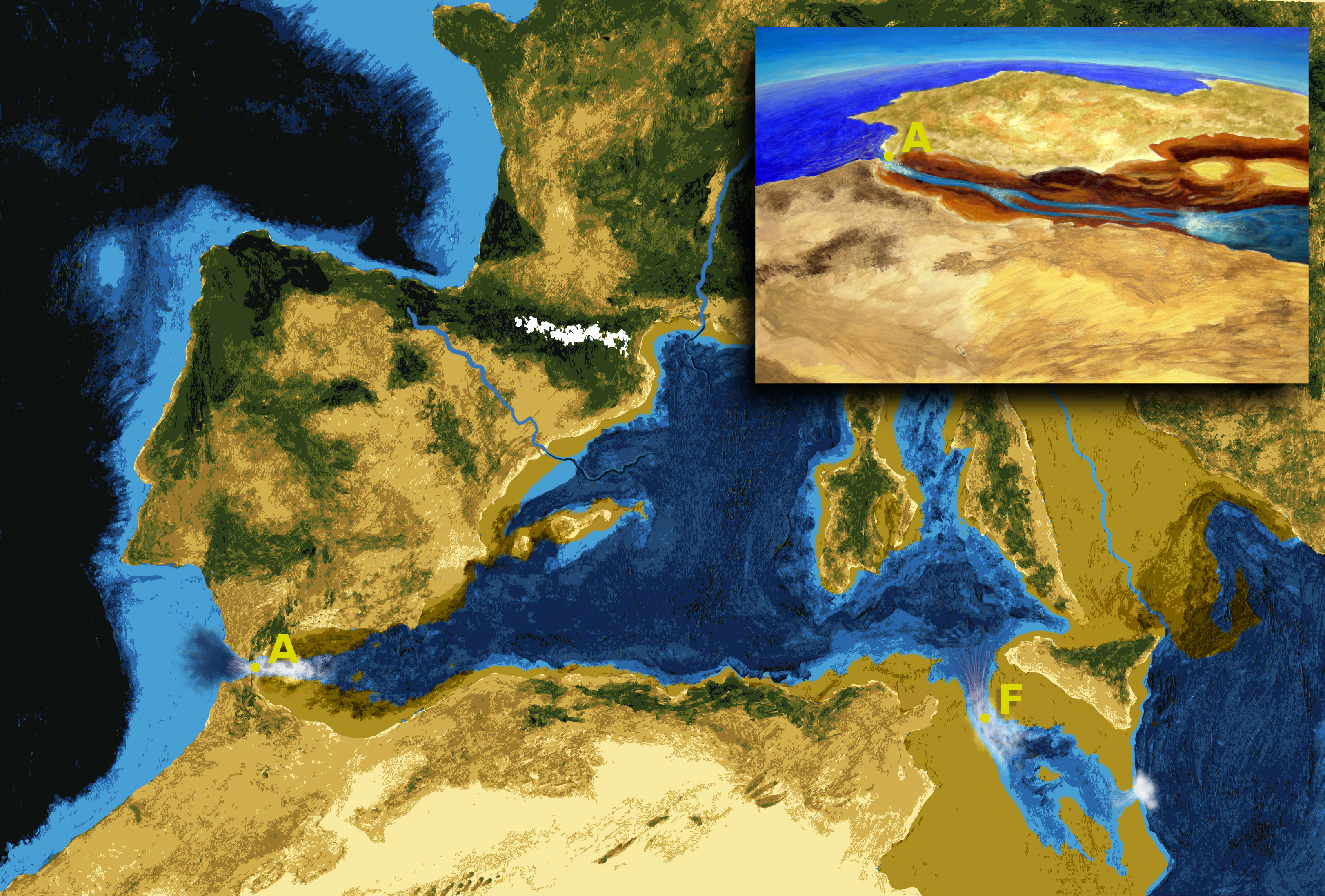 Re-flooding of the Mediterranean by Atlantic waters that ended the Messinian salinity crisis 5.3 million years ago (Zanclean flood). Water intrusion occurred across the Strait of Gibraltar (A) and clog the western Mediterranean basin flooded eastern, probably through the current Strait of Sicily (F). Artistic interpretation by Pau Bahí under the scientific supervision of Daniel Garcia Castellanos, geophysicist at the Institute of Earth Sciences Jaume Almera (CSIC)